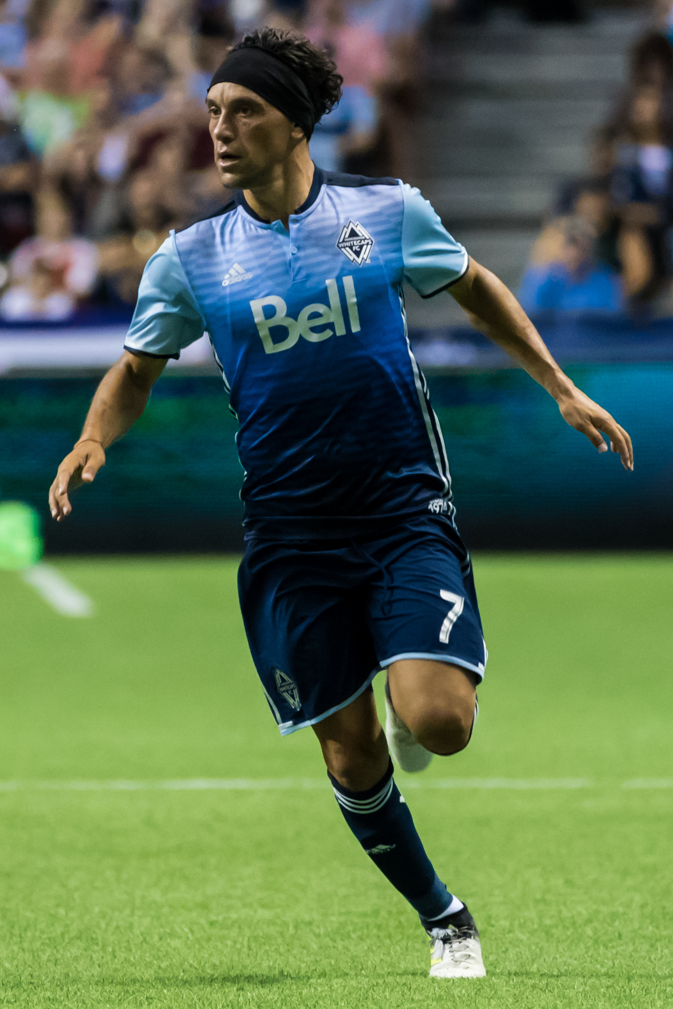 Seattle Sounders at Vancouver Whitecaps FC, Major League Soccer, BC Place, Vancouver, British Columbia, Canada, Wednesday, August 23rd, 2017, Final Score: Vancouver 1 Seattle 1 (Photos by Duncan Nicol)